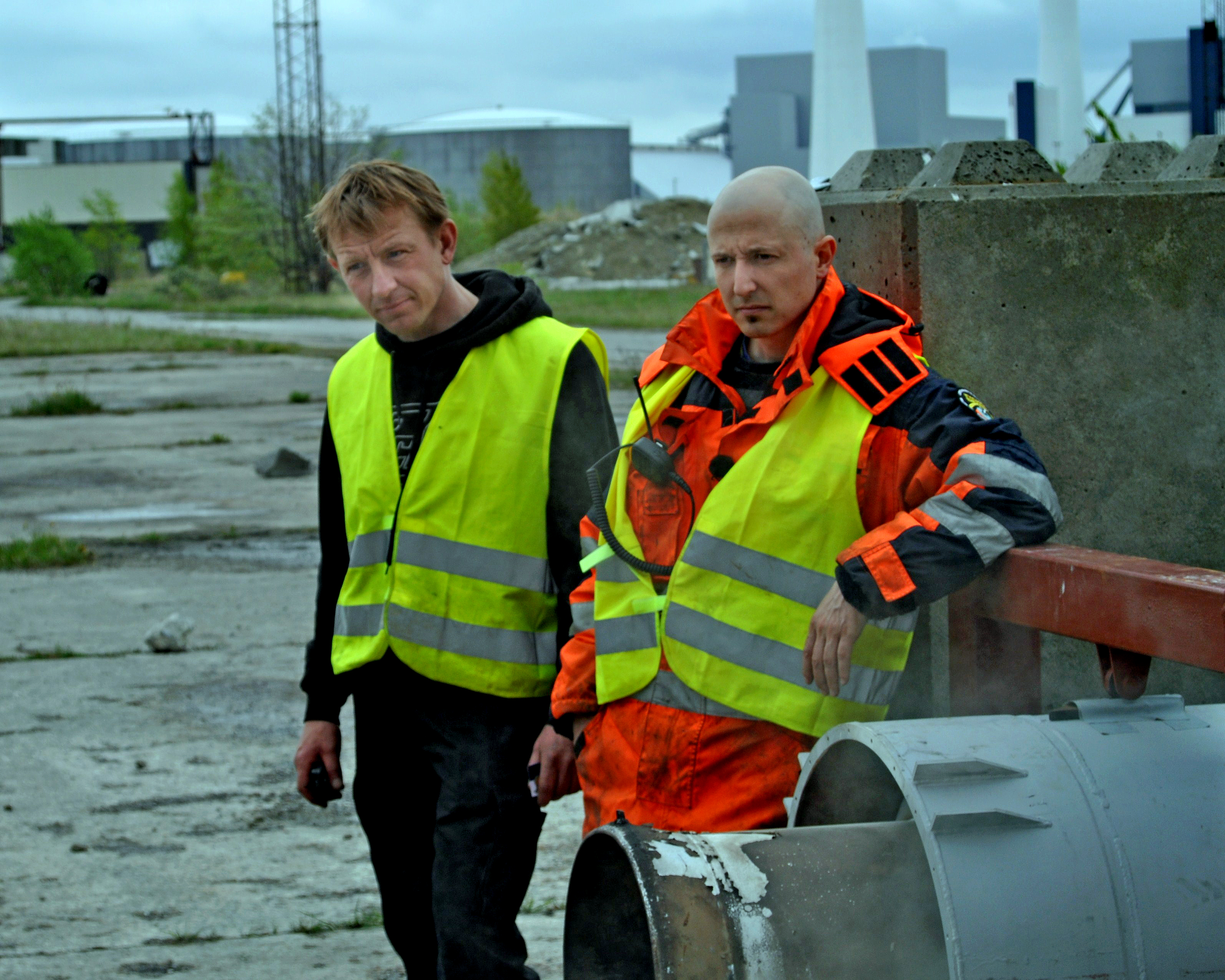 Peter Madsen and Kristian von Bengtson are two Danes currently involved in building a rocket to send a person in space. Picture taken after a booster test May 16th 2010 at the Copenhagen Suborbitals' lair.